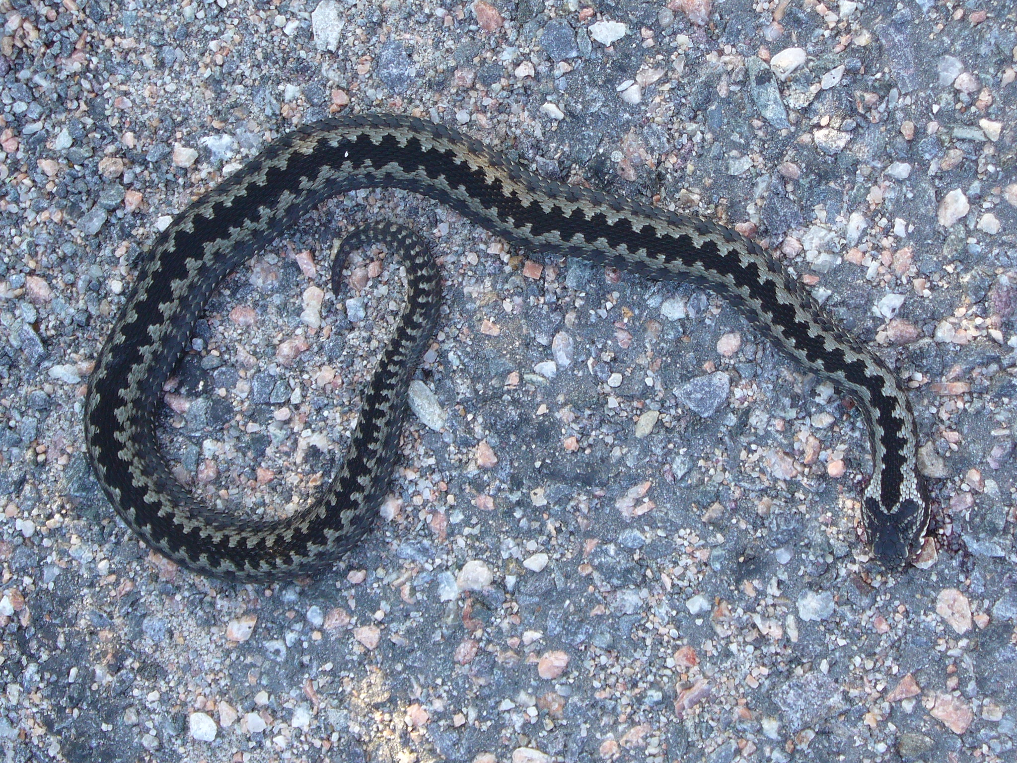 Vipera berus (common European viper) on asphalt. Kallavere village, Harju county, Estonia. Although it is hard to see, this viper has been run over by a car.